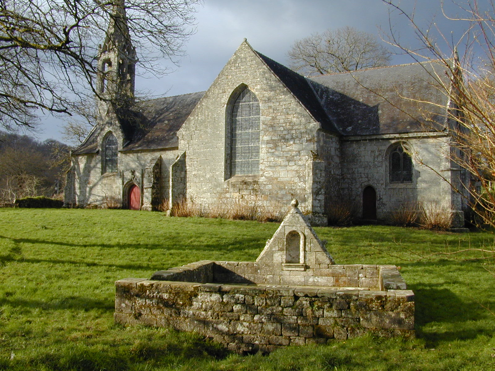 Saint Urlo's chapel